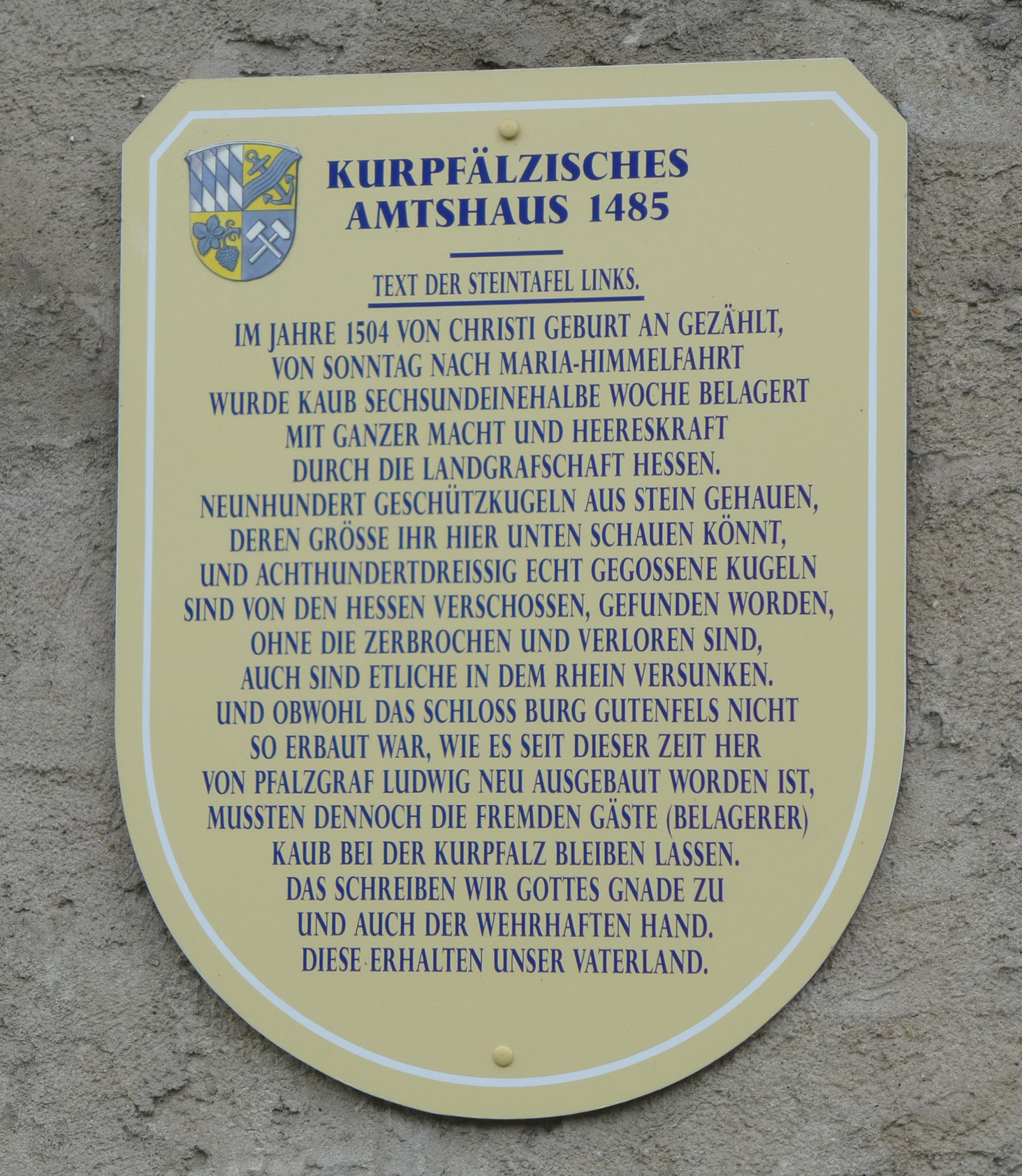 Translation of the text about the 1504 siege by Hesse army, Zollhaus of 1485, Kaub, Rhineland-Palatinate.